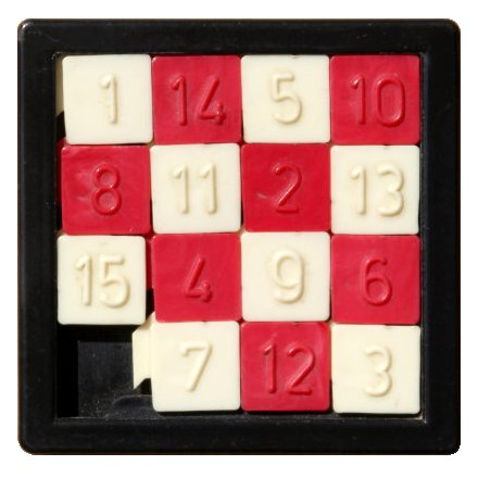 15 puzzle arrangement with knight move in chess, solvable in the normal device.